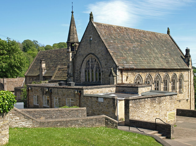 Richmond Lower School, near to Richmond, North Yorkshire, Great Britain. The older part of the school, note the chimneys and most of the orante features have been removed and fireplaces blocked up, a great act of vandalism